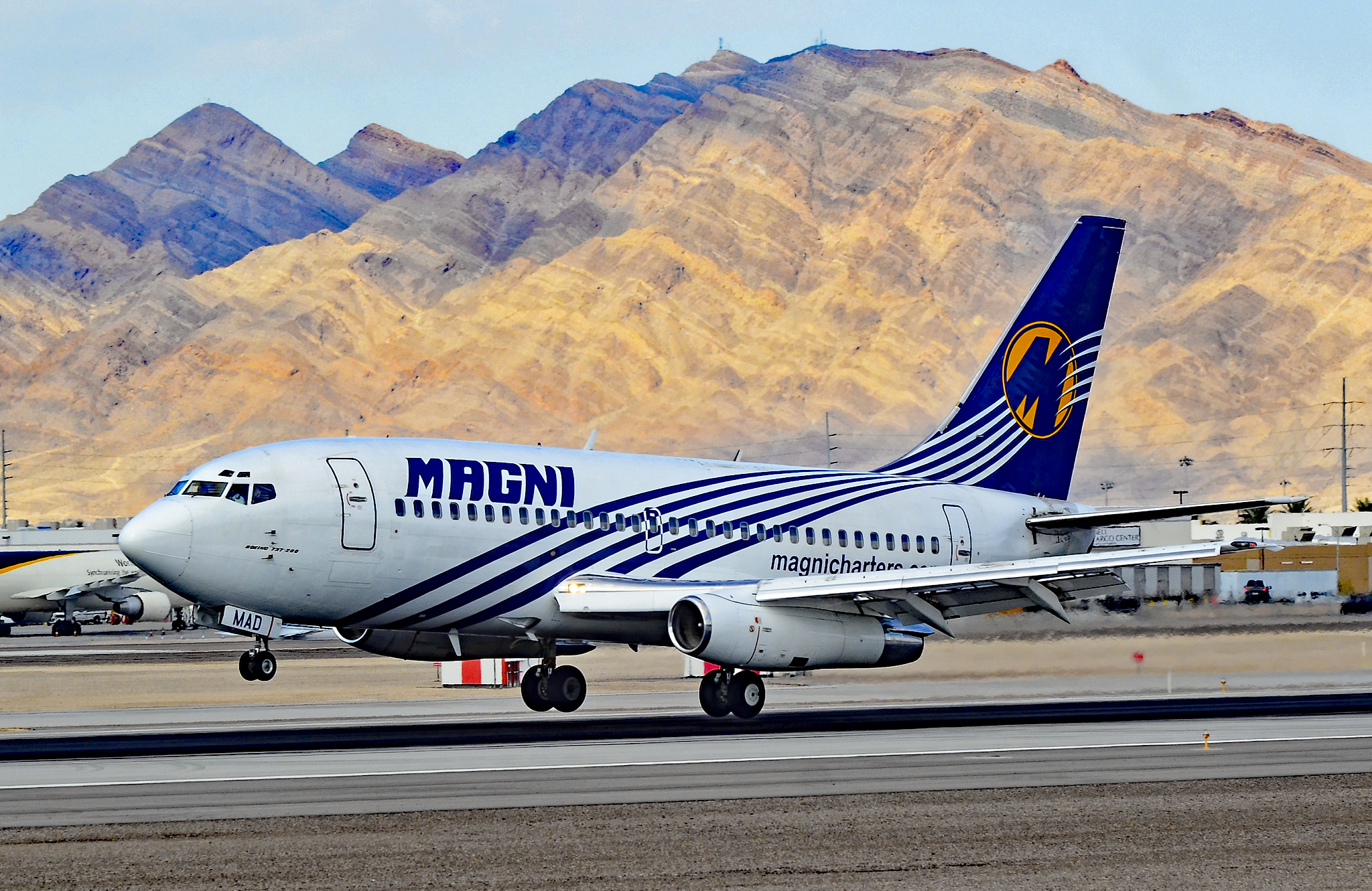 McCarran International Airport (KLAS) Las Vegas, Nevada TDelCoro September 12, 2013